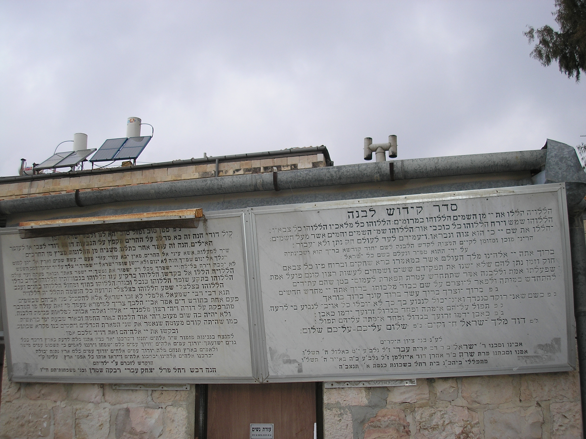 Text of "Kiddush Levanah" (Sanctification of the Moon) service on the outside of Beit Rachel Synagogue, Knesset Israel (Knesset Aleph), Nahlaot, Jerusalem